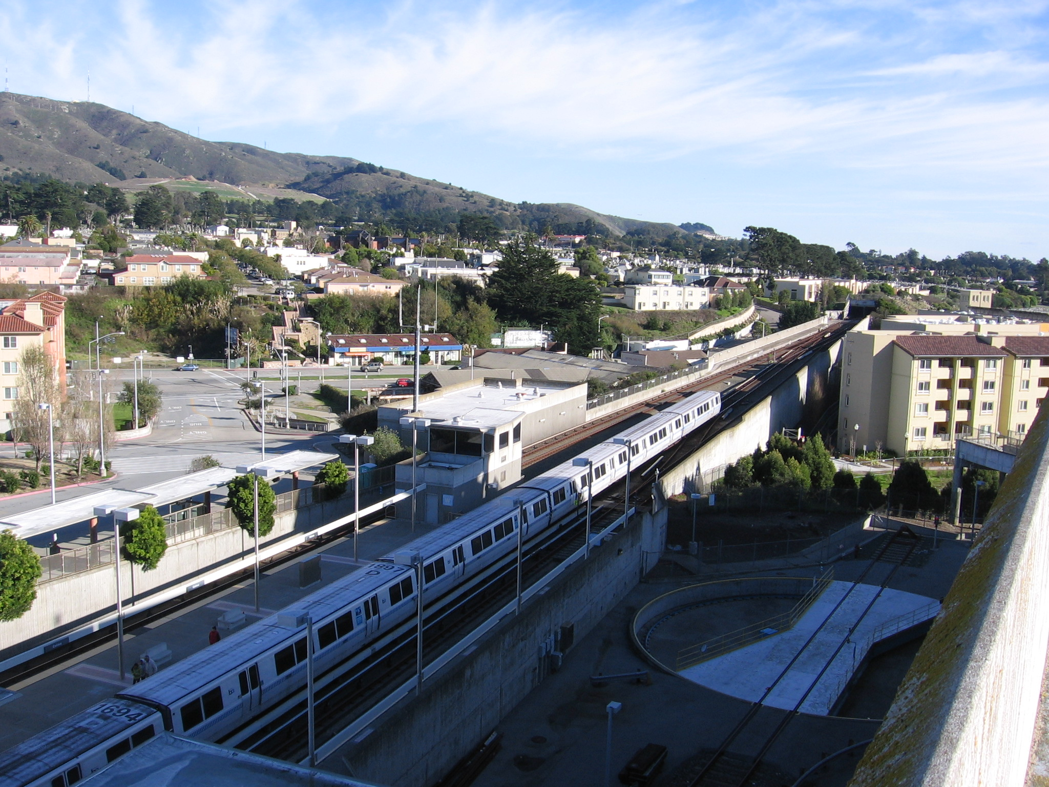 A train departing the Colma (BART station) in Colma, California, USA; headed for the South San Francisco station. The turntable at Colma is visible in the lower right.